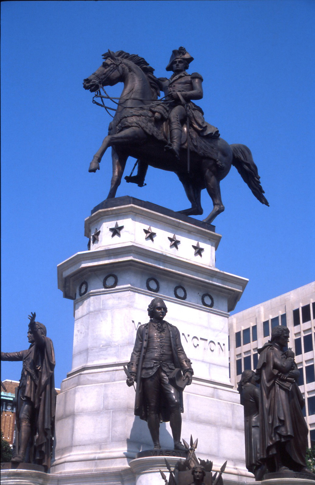 Washington Memorial by Thomas Crawford, Richmond, Virginia.